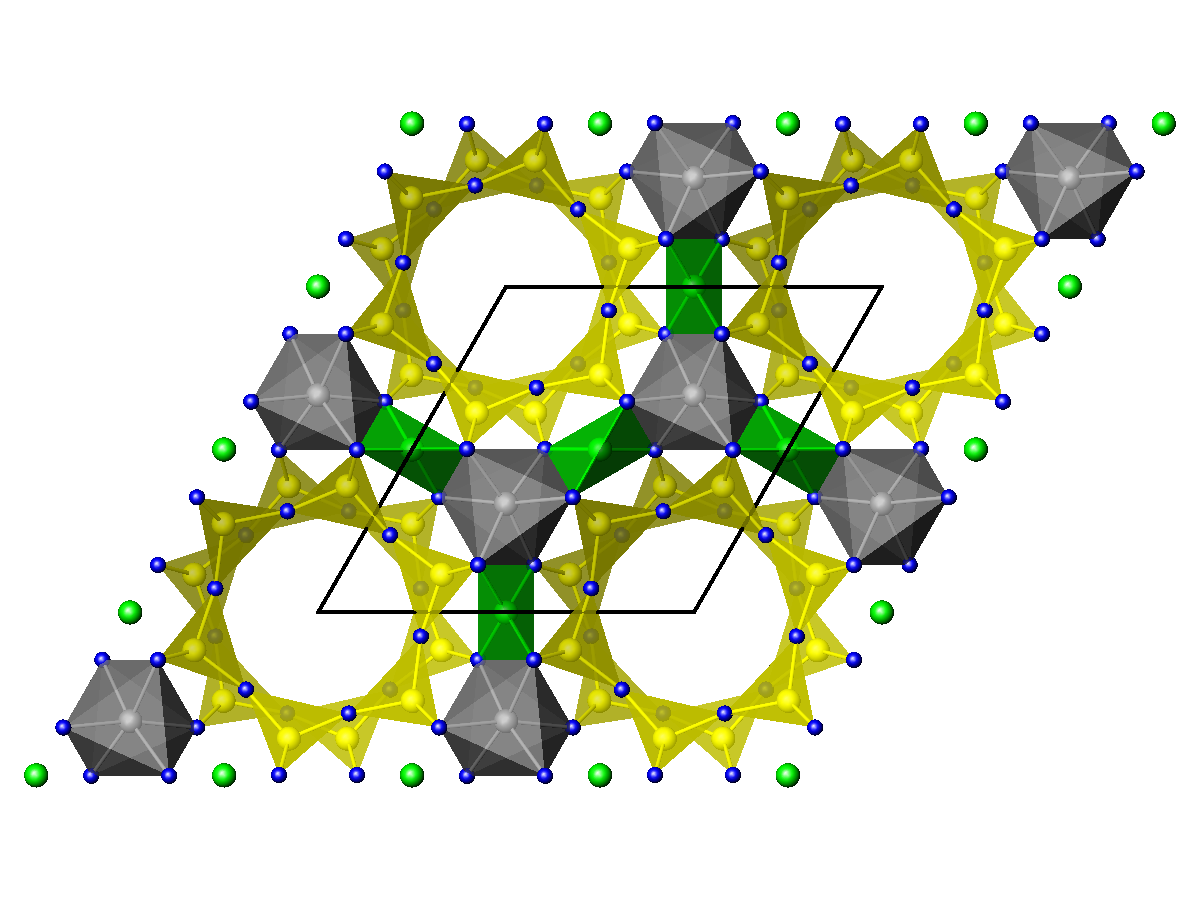 Crystal structure of beryl